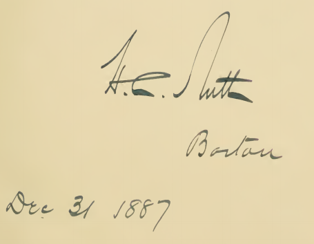 Autograph (signature) of Henry Clay Nutt, president of the Atlantic and Pacific Railway Company, 1881-1889, former colonel in the Iowa militia and former engineer. Image from the flyleaf of his copy of The Biographical Directory of the Railway Officials of America for 1887, held by the library at Northwestern University.